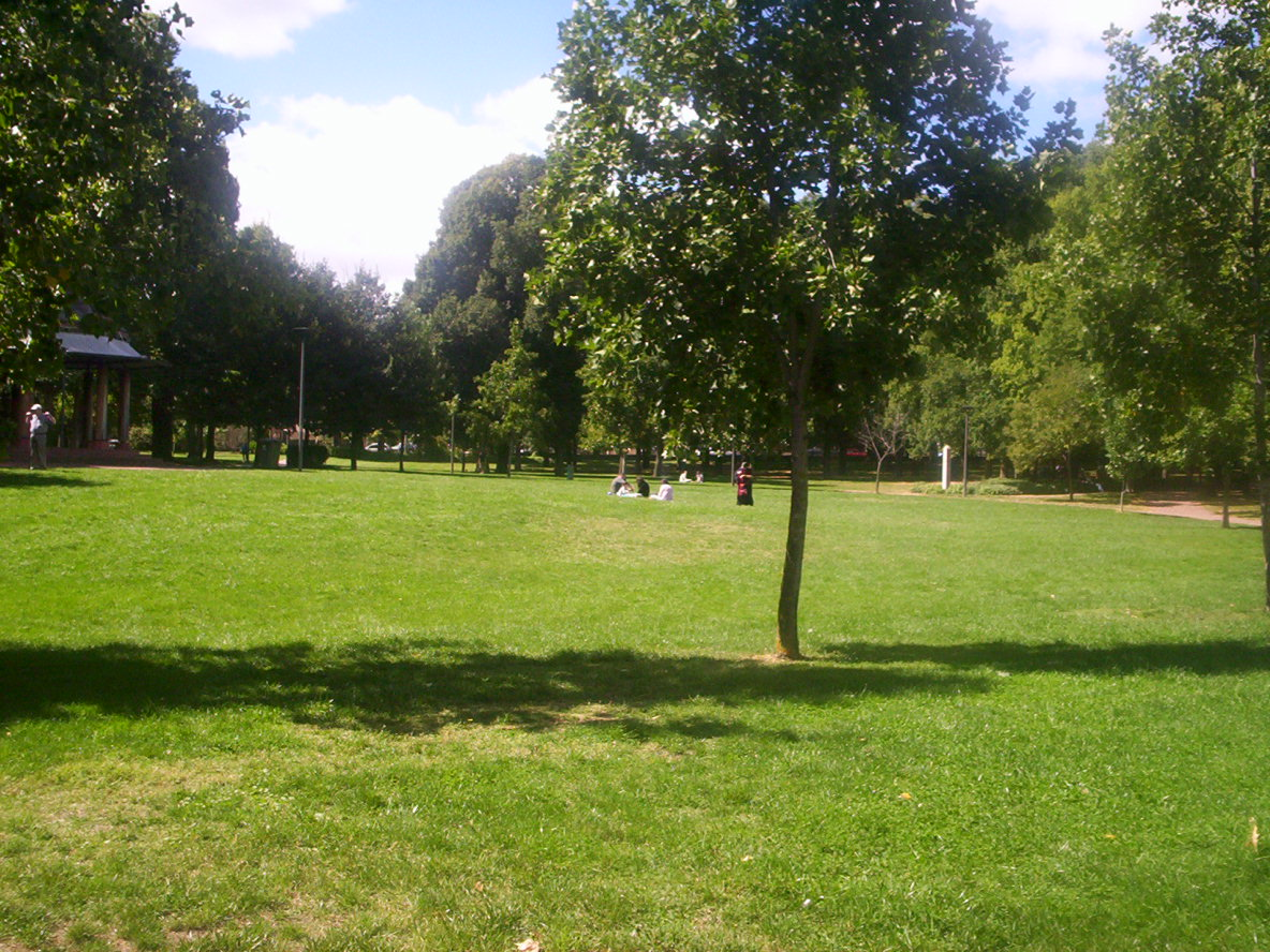 Open area in Glebe park, Canberra.